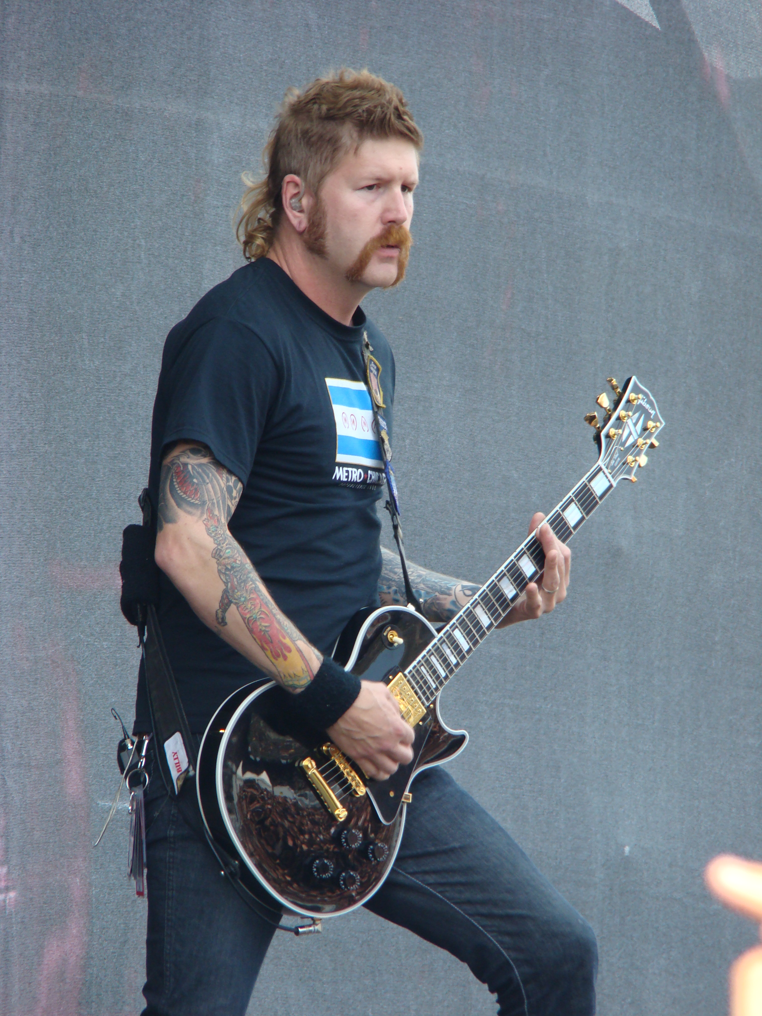 Bill Kelliher From Mastodon